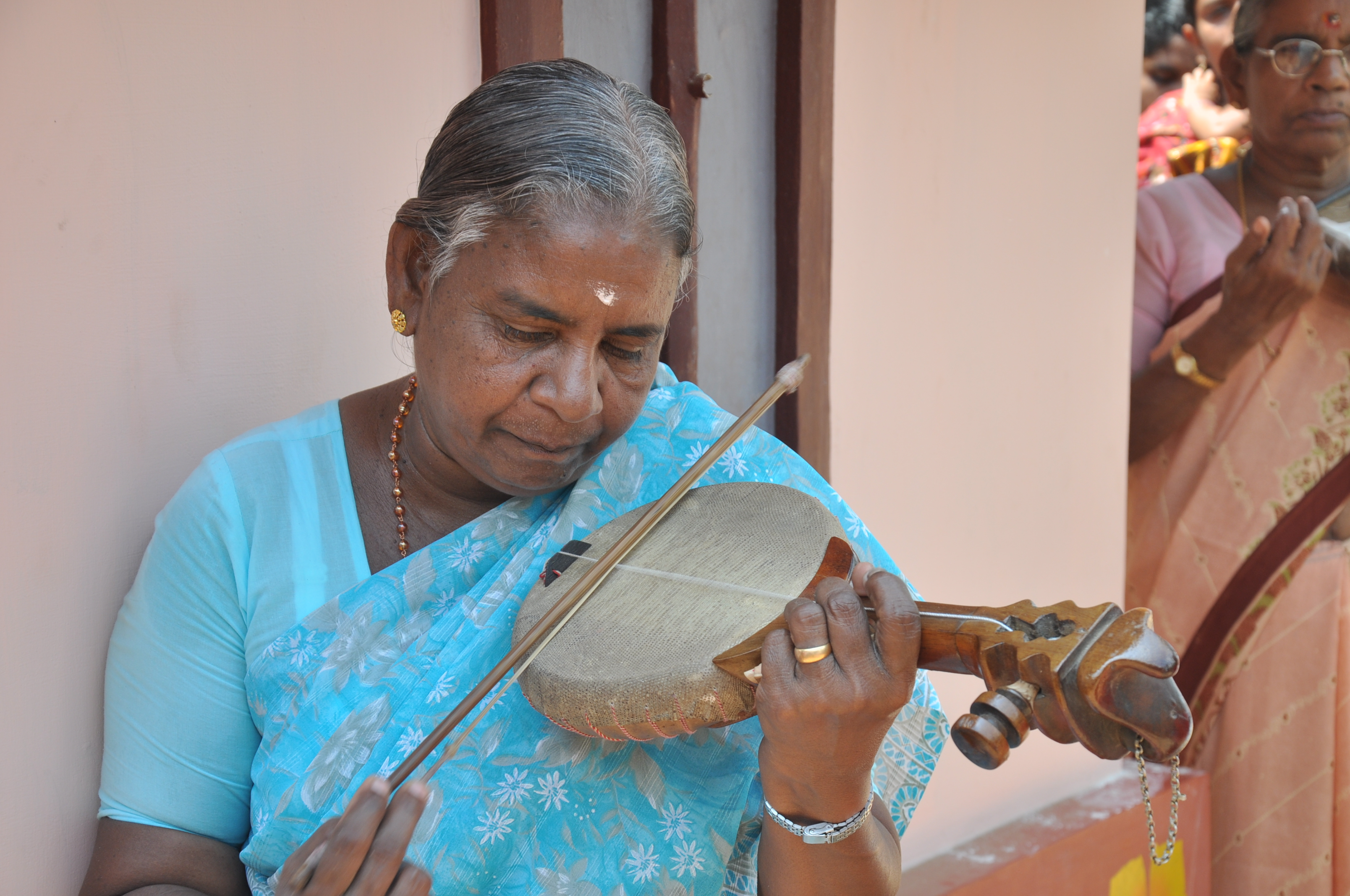 This media file is uploaded with India loves Wikipedia event. Pulluvan pattu in Ashtamudi temple